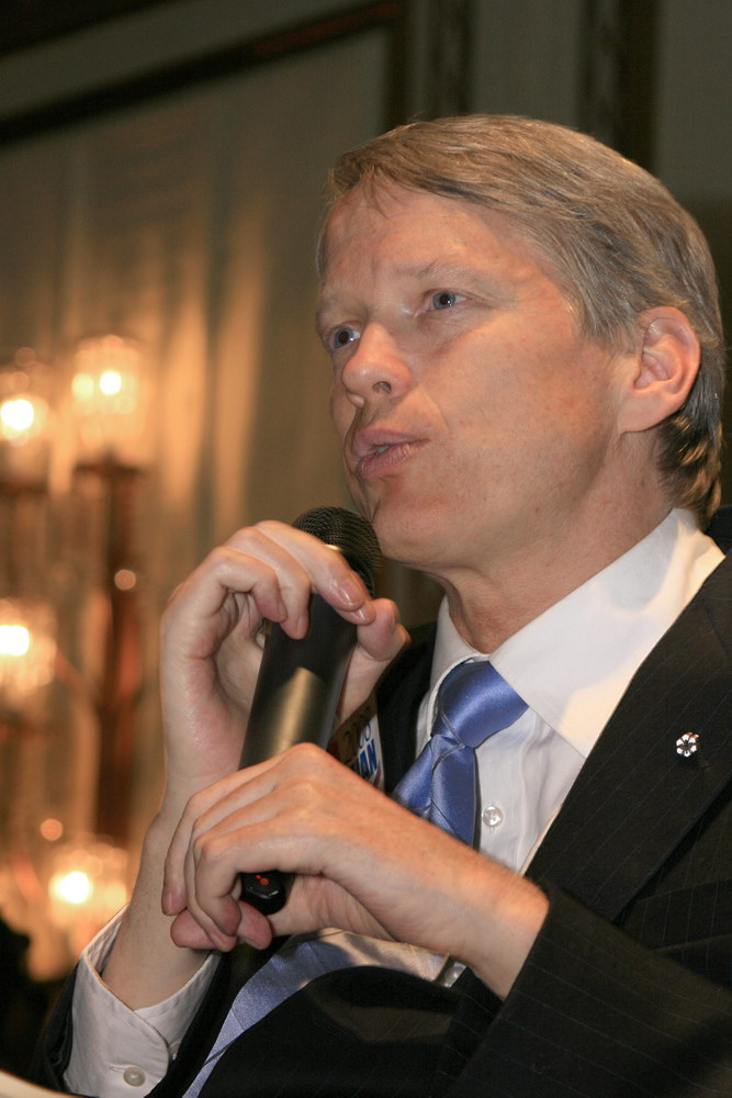 Sam Sullivan addresses a rally in support of his candidacy for mayor attended by the majority of the NPA caucus and declared NPA candidates.